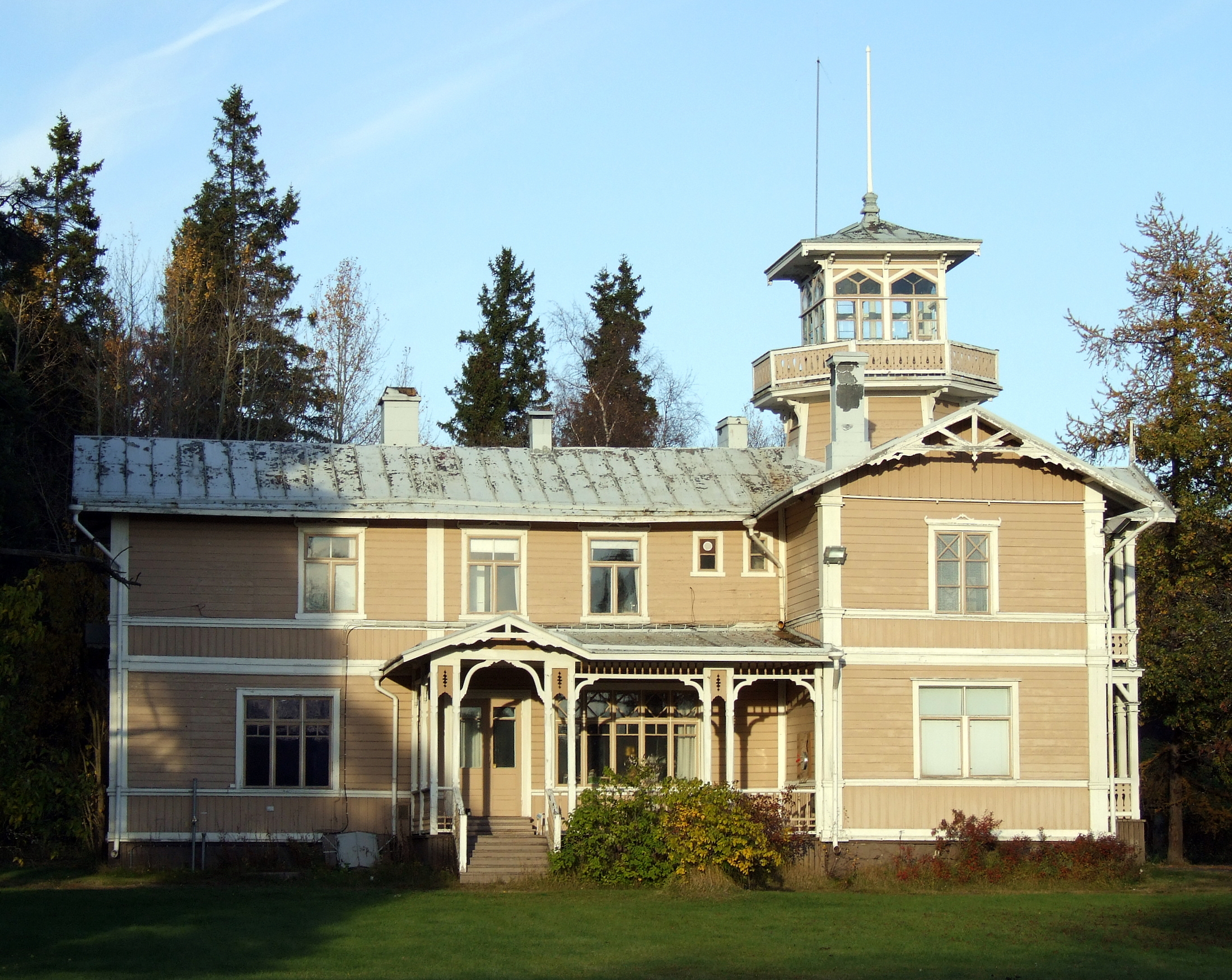 Ellala is an old villa in Toppila, Oulu, Finland. It was built in 1879.